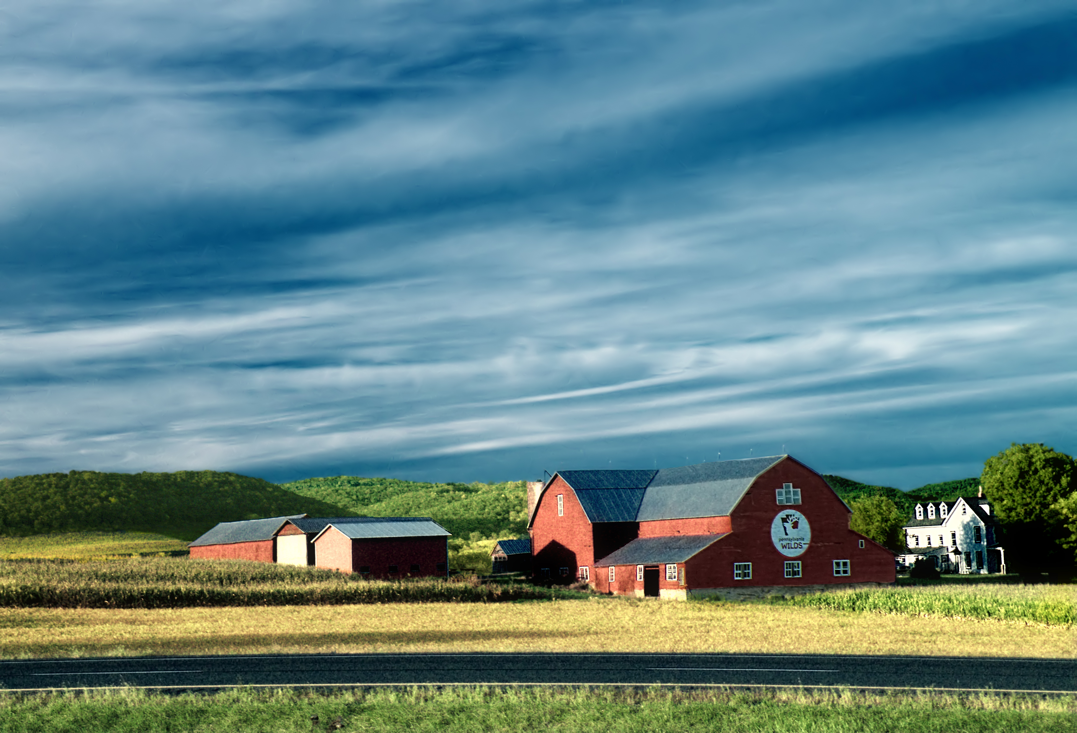 Farm along Interstate 180, Muncy Township, Lycoming County.